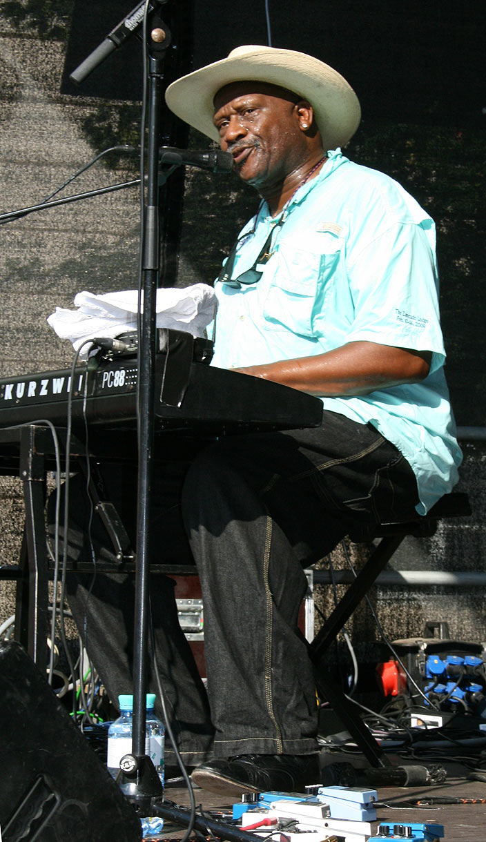 Blues musician Taj Mahal at the Museumsquartier in Vienna (Jazz-Fest Wien)